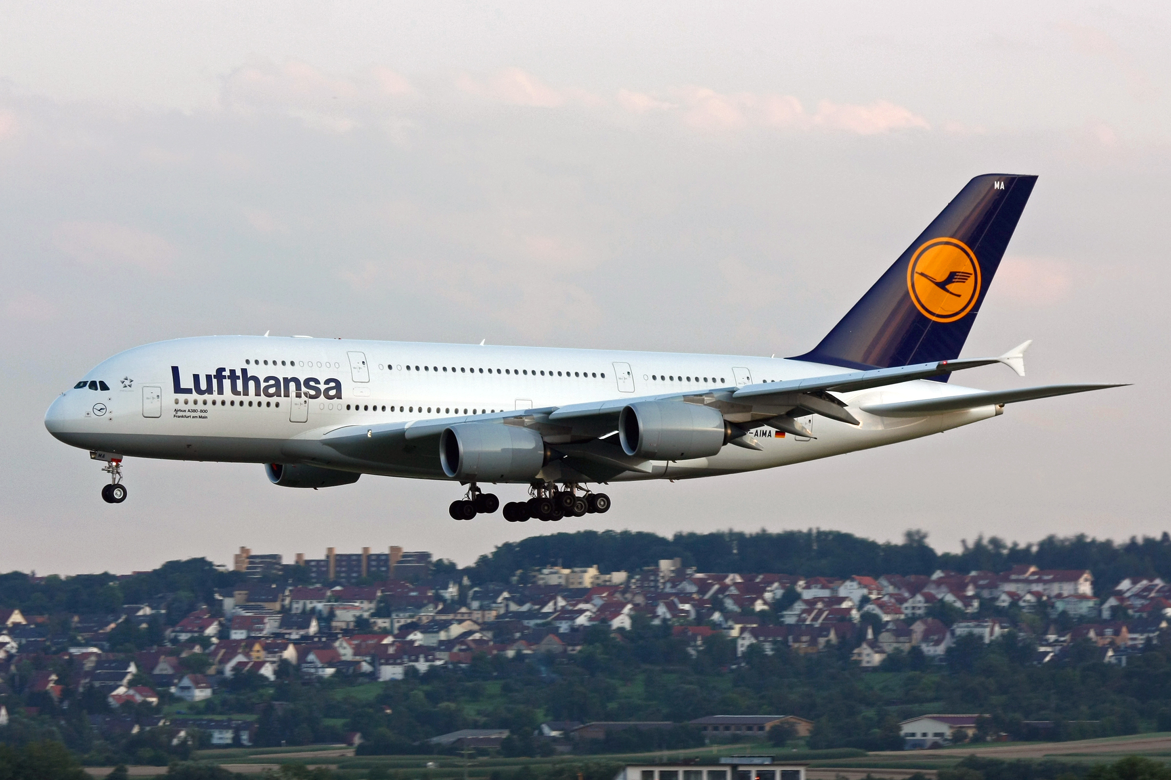 Lufthansa's first Airbus A380 D-AIMA with the name Frankfurt lands at Stuttgart Airport.